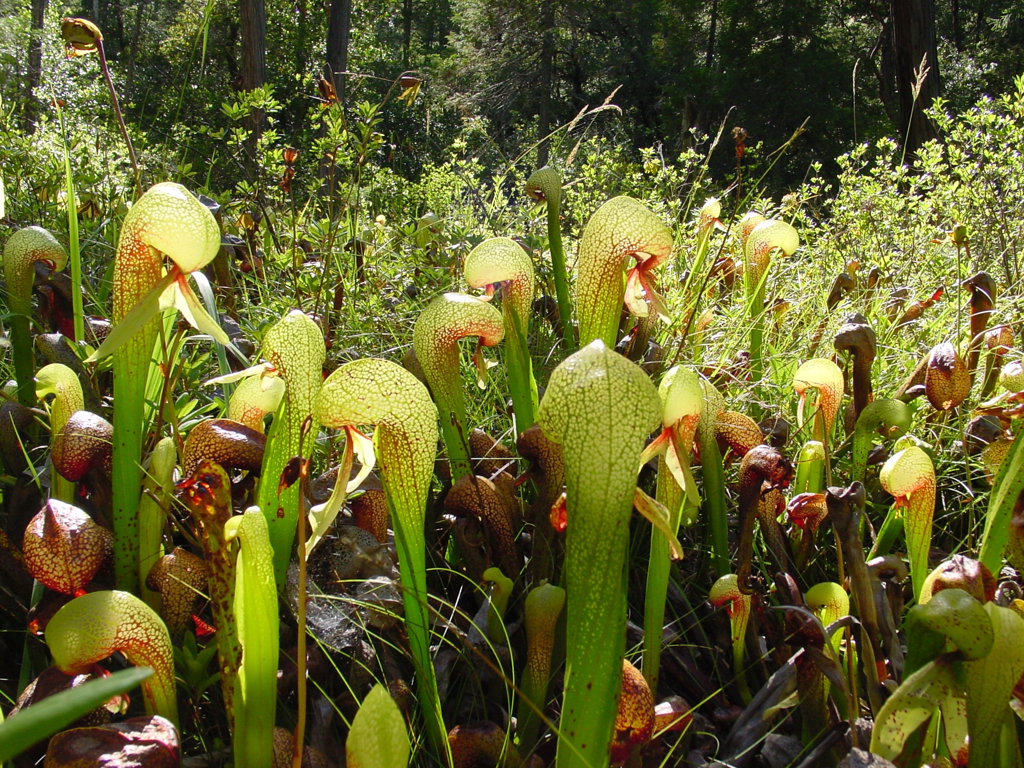 California pitcher plant (Darlingtonia californica), Botanical Trail, Butterfly Valley Botanical Area, Sierra Nevada, Plumas County, California